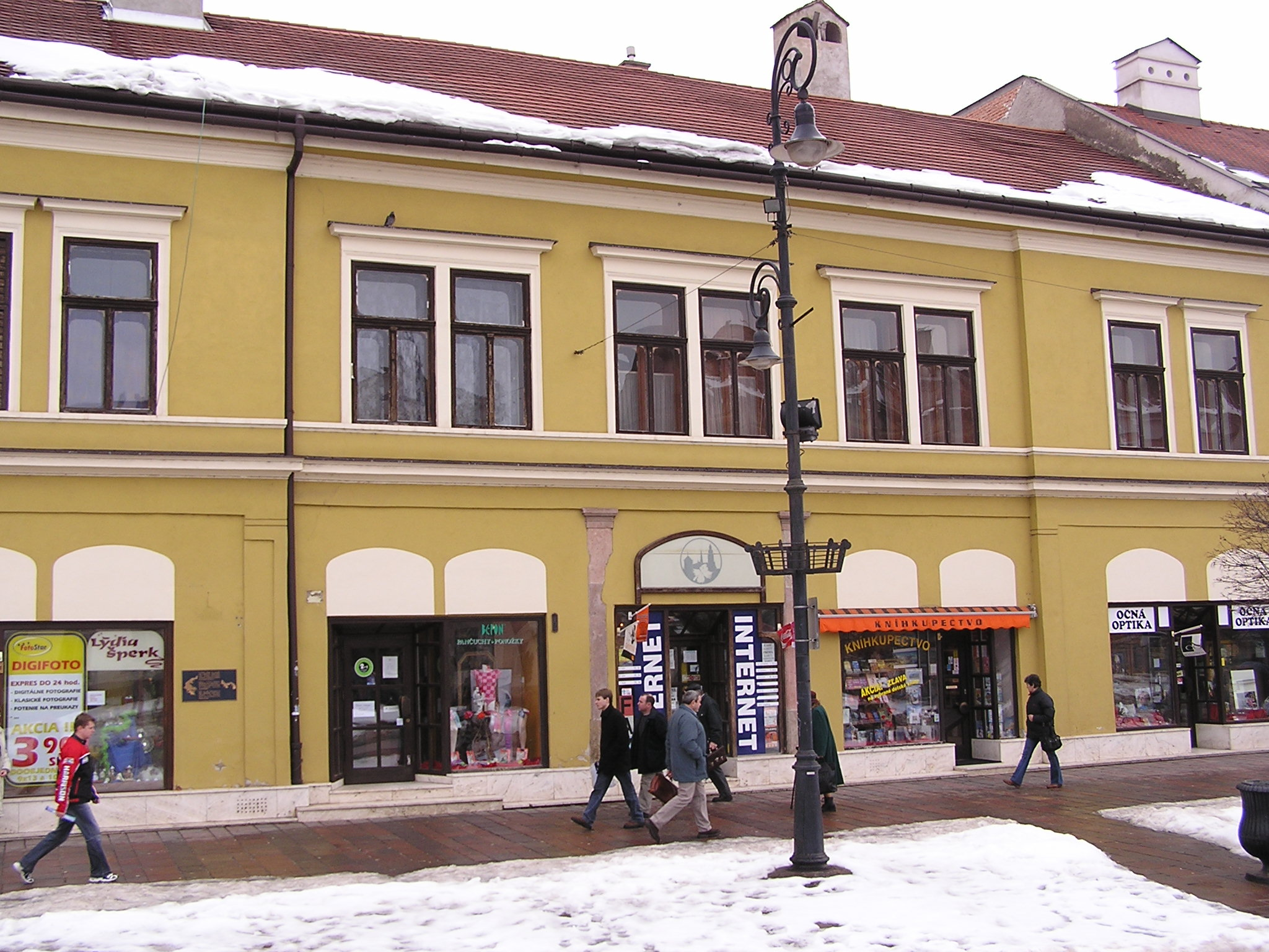 Author: Marian Gladis This medium shows the protected monument with the number 802-1196/1 in the Slovak Republic.